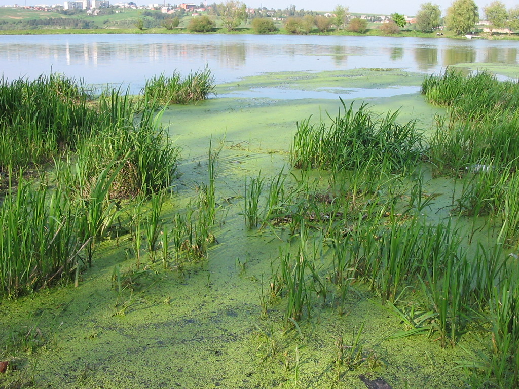 Lake in Berezhany, western Ukraine. Lake is formed from the flow of Zolota Lypa river.